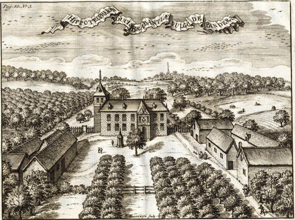 Horse raising facility "De Binders" in Soignes forest